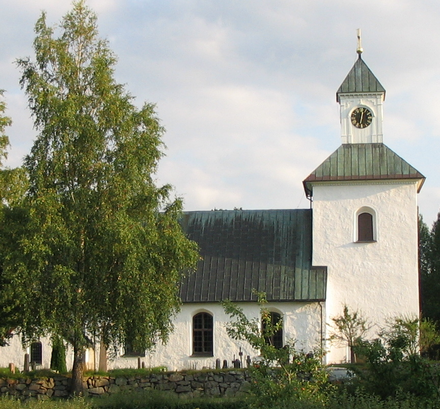 The church of Ör